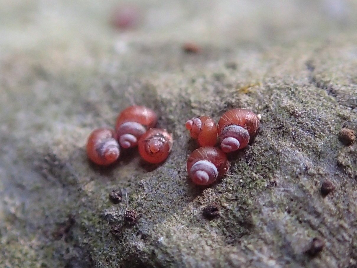 Georissa shikokuensis Amano, 1939 (Japanese name: Beni-Goma-Oka-Tanishi) (Neritimorpha: Hydrocenidae). Shell height: around 2mm. Loc. Toyohashi, Aichi, Japan.